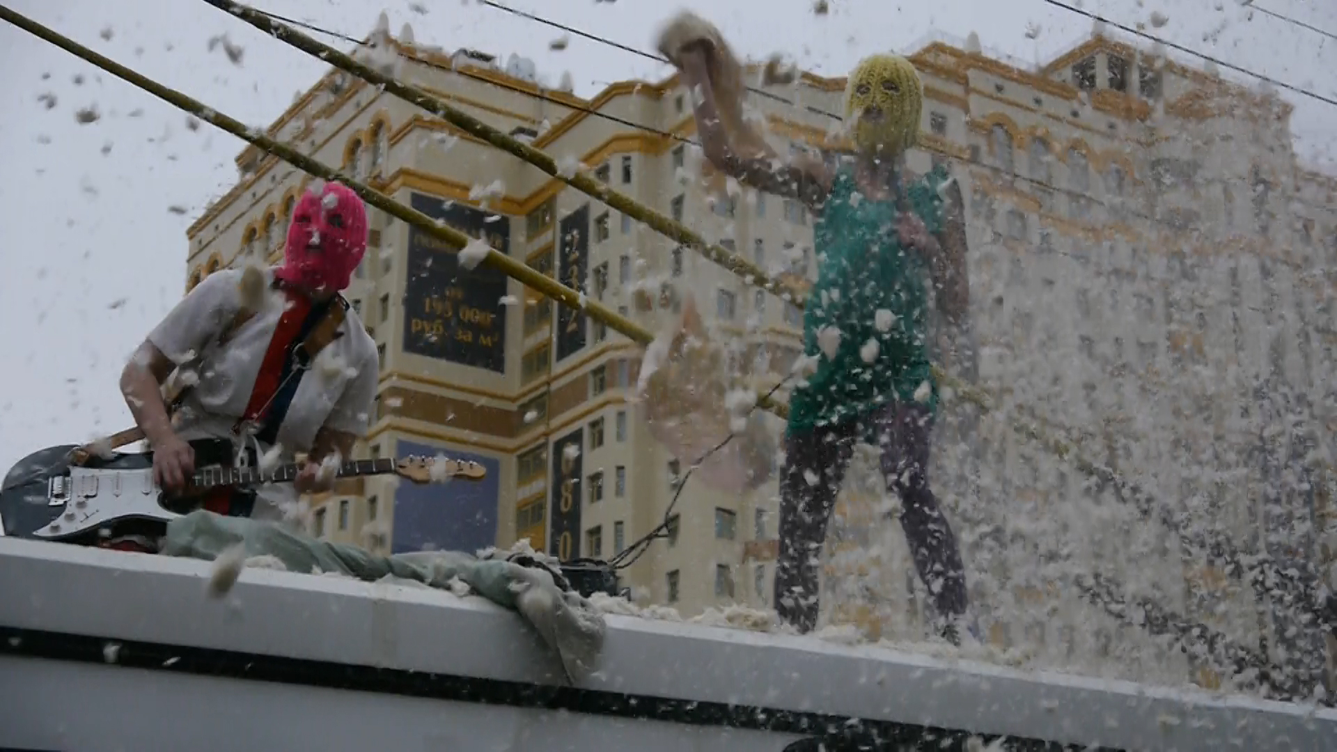 Gogol's Wives Productions. A frame from the documentary film Pussy versus Putin. Pussy Riot 2011 performance in Moscow on the Trolleybus Roof. 1920 x 1080 pixels, 96 dpi.